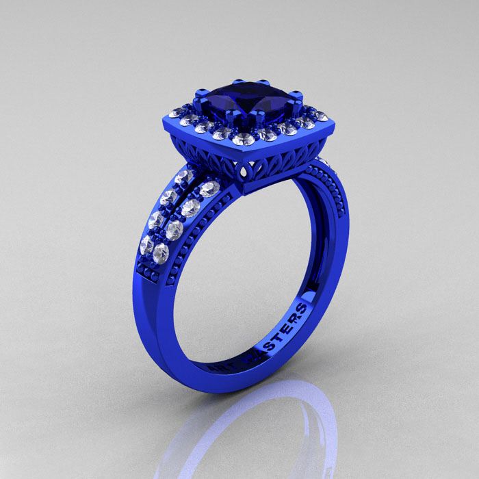 Blue-Gold